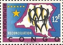 Postage stamp celebrating the reconciliation of the disparate central government, federal, ethnic and regionalist factions in post-independence Congo-Léopoldville. Issued in 1963 after the suppression of the South Kasai and Katanga secessions.